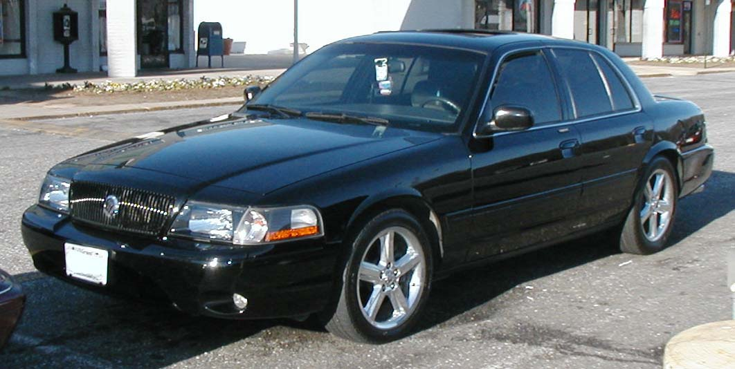 2003-2004 Mercury Marauder photographed in USA.